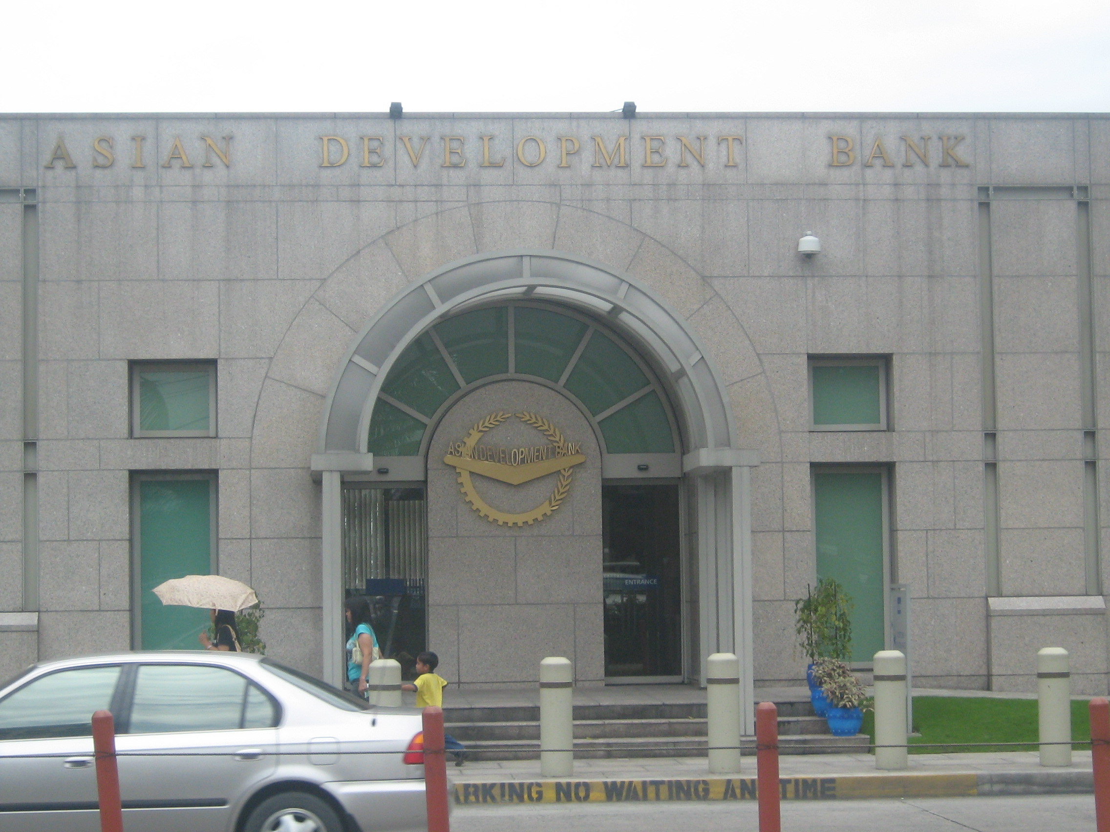 ADB Building